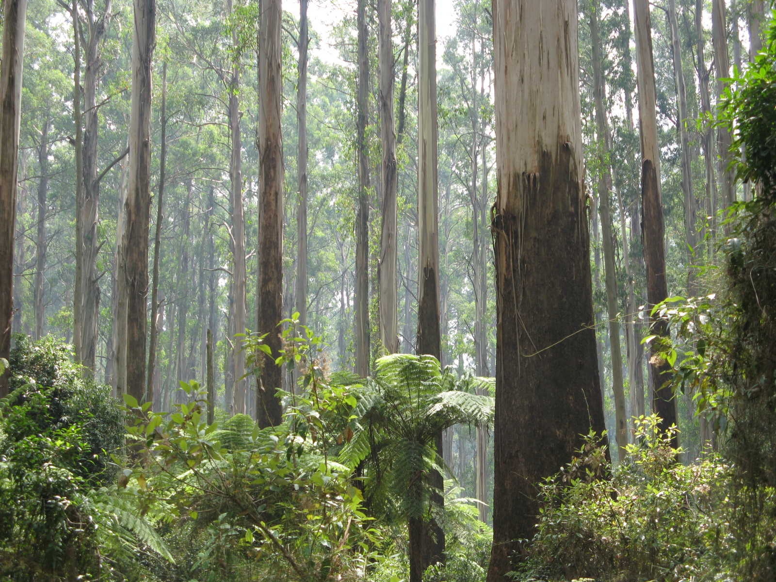 Mountain Ash and Ferns in Sherbrooke Forest in the Dandenong Ranges. Photo taken by myself on the 18th of February, 2009.